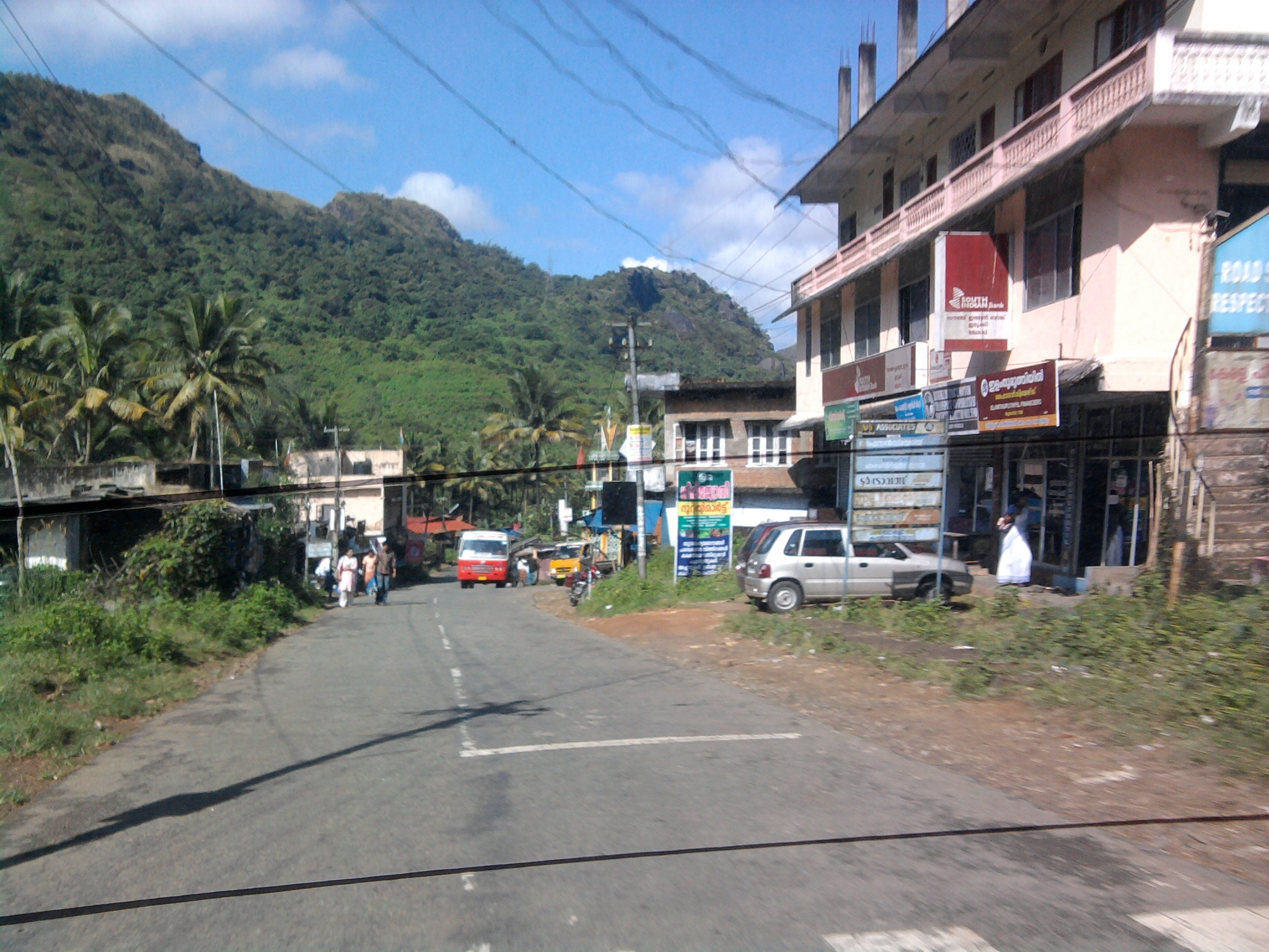 Idukki junction